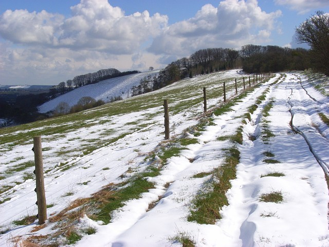 Downland, East Woodhay On the Wayfarer's Walk as it approaches Pilot Hill, the highest point in Hampshire. The north-facing scarp is extremely steep.